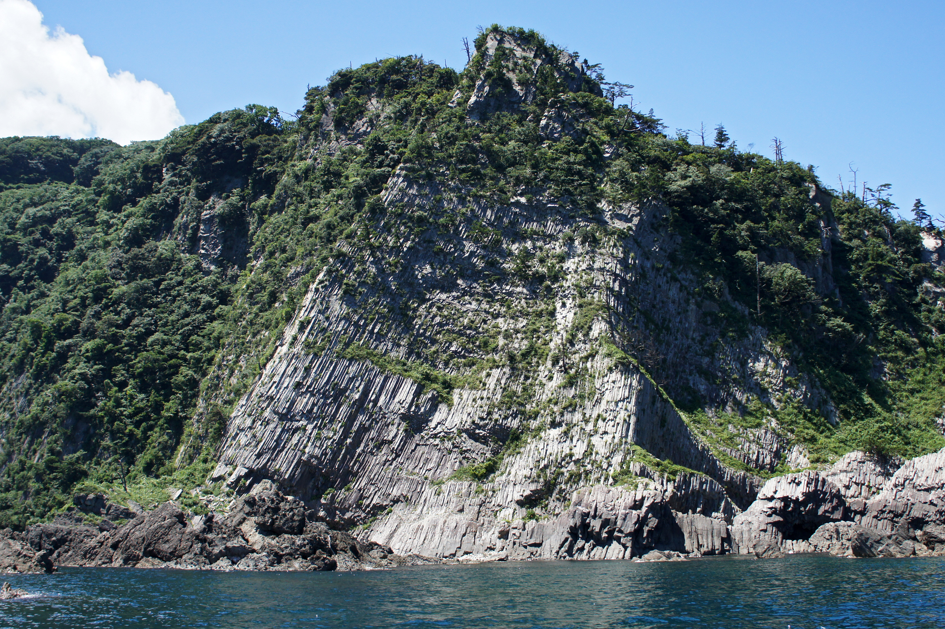 Yoroi-no-sode (sleeve of armor) , a huge 65 meter-high cliff, in Kasumi Coast, Kami, Hyogo prefecture, Japan. It belongs to a Sanin Kaigan National Park.